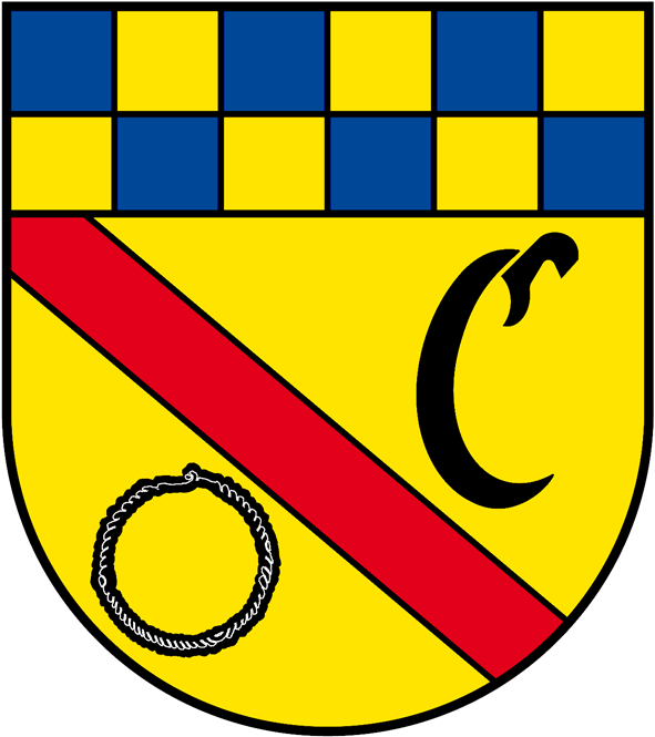 Coat of arms of Ober Kostenz